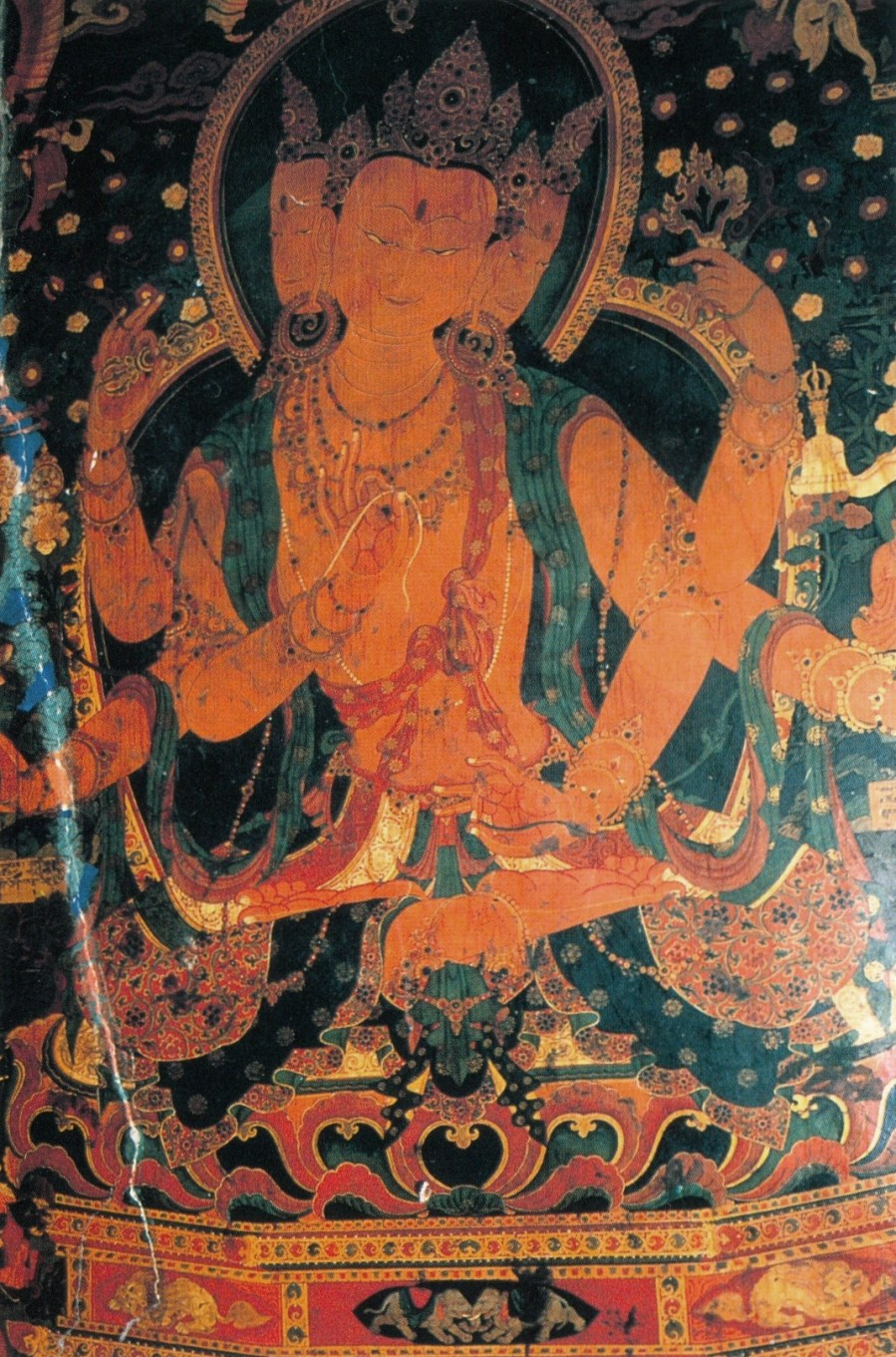 Maitreya Bodhisattva, wall painting, Kumbum monastery at Gyantse, Tsang, ca. 2nd quarter of the 15th century